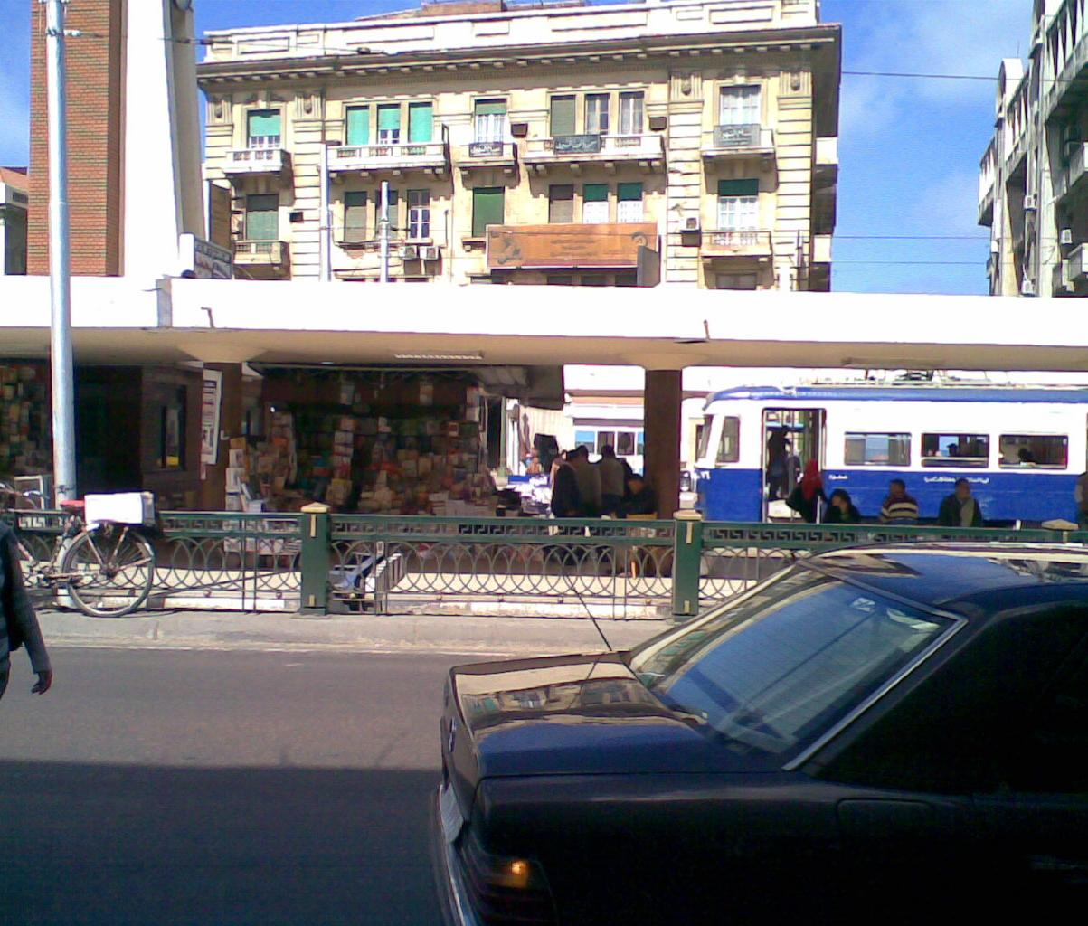 Ramleh Station, Alexandria, Egypt.